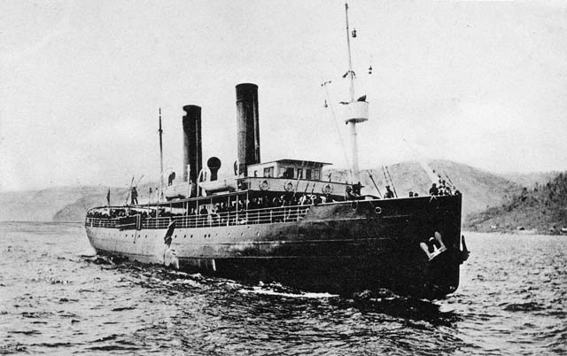 Ice Breaker "Angara" (um 1901)